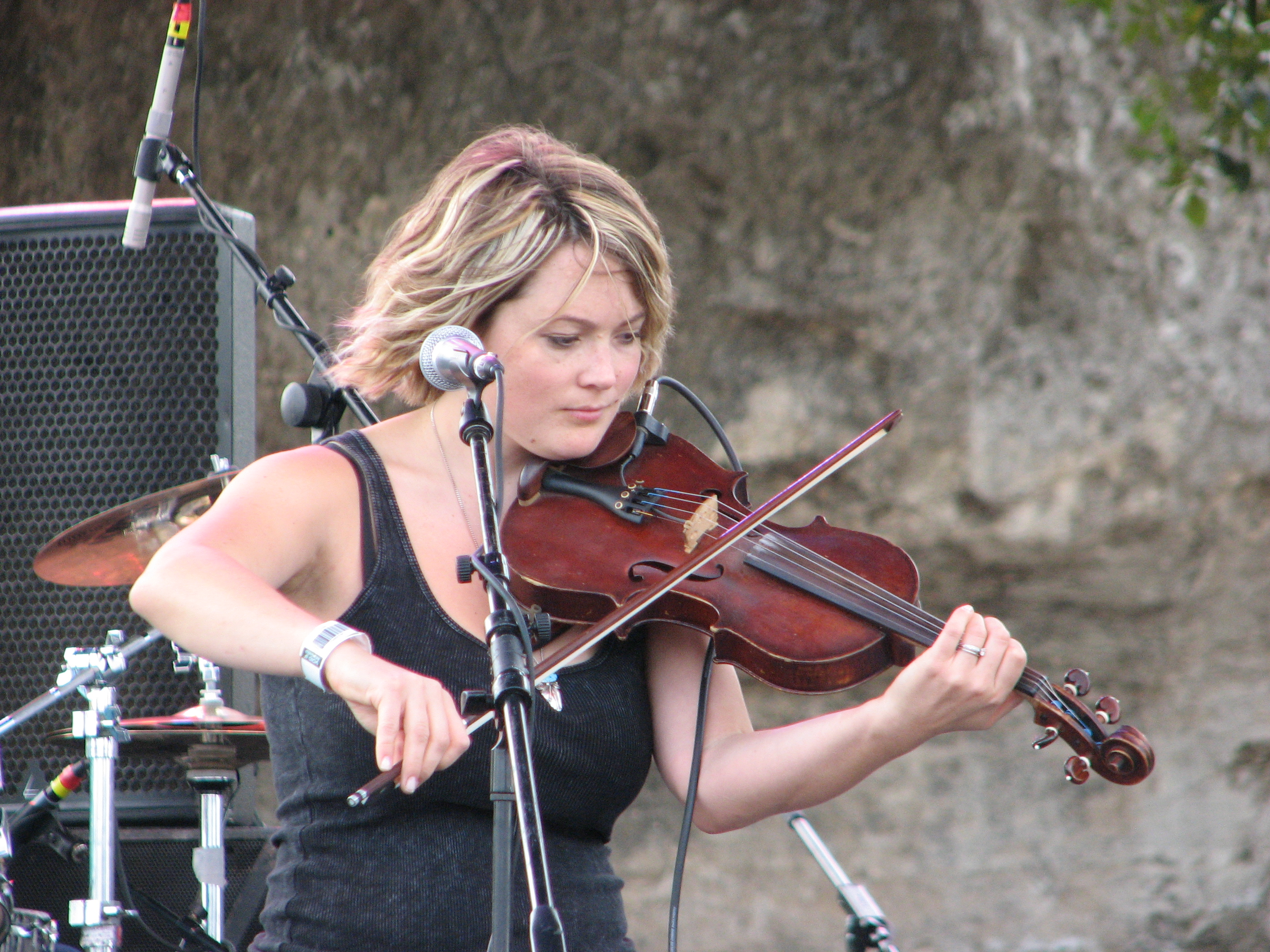 Sara Watkins playing at the Austin City Limits festival, October 2, 2009.